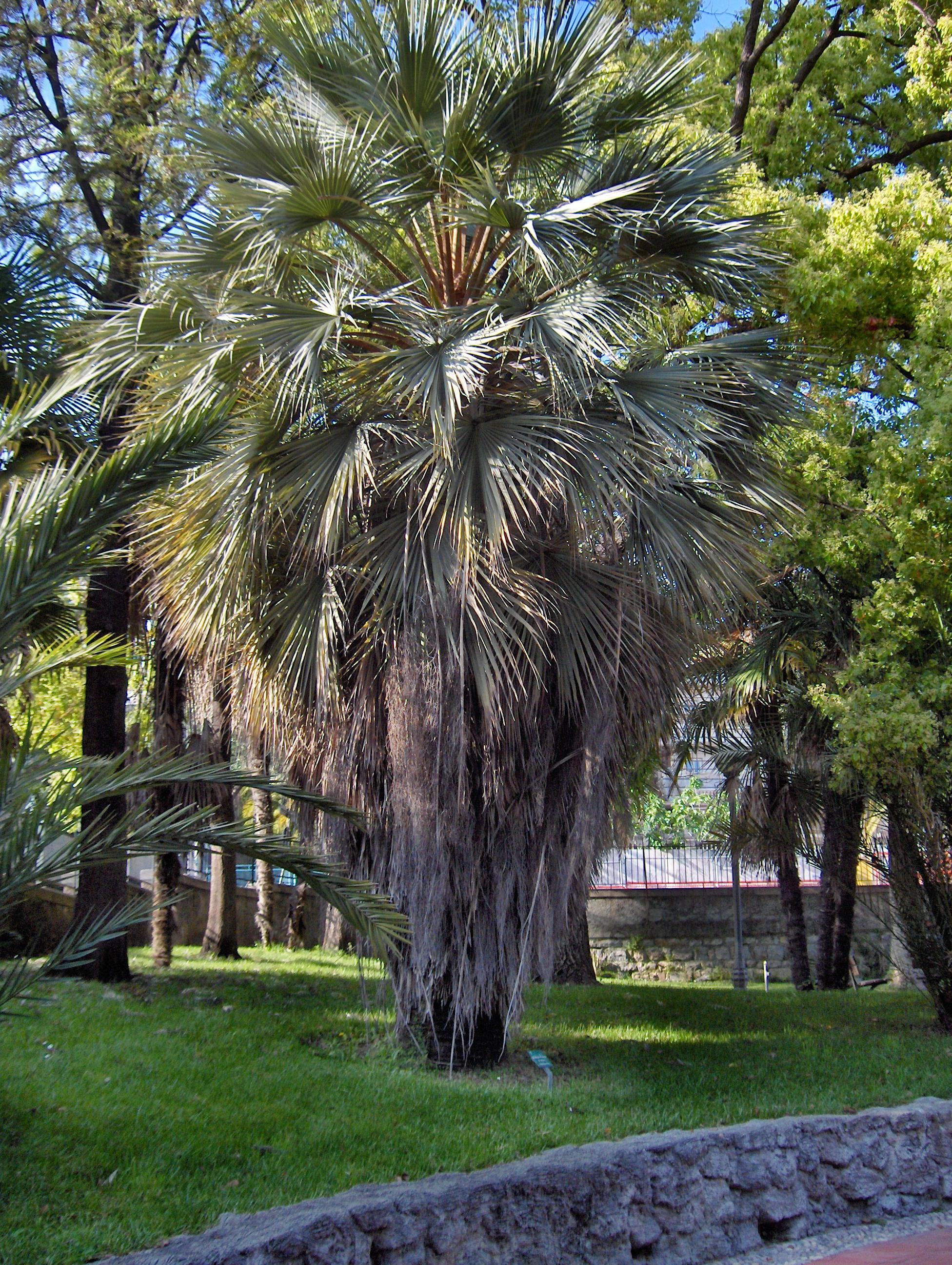 Brahea armata; botanical garden, San Remo, Italy